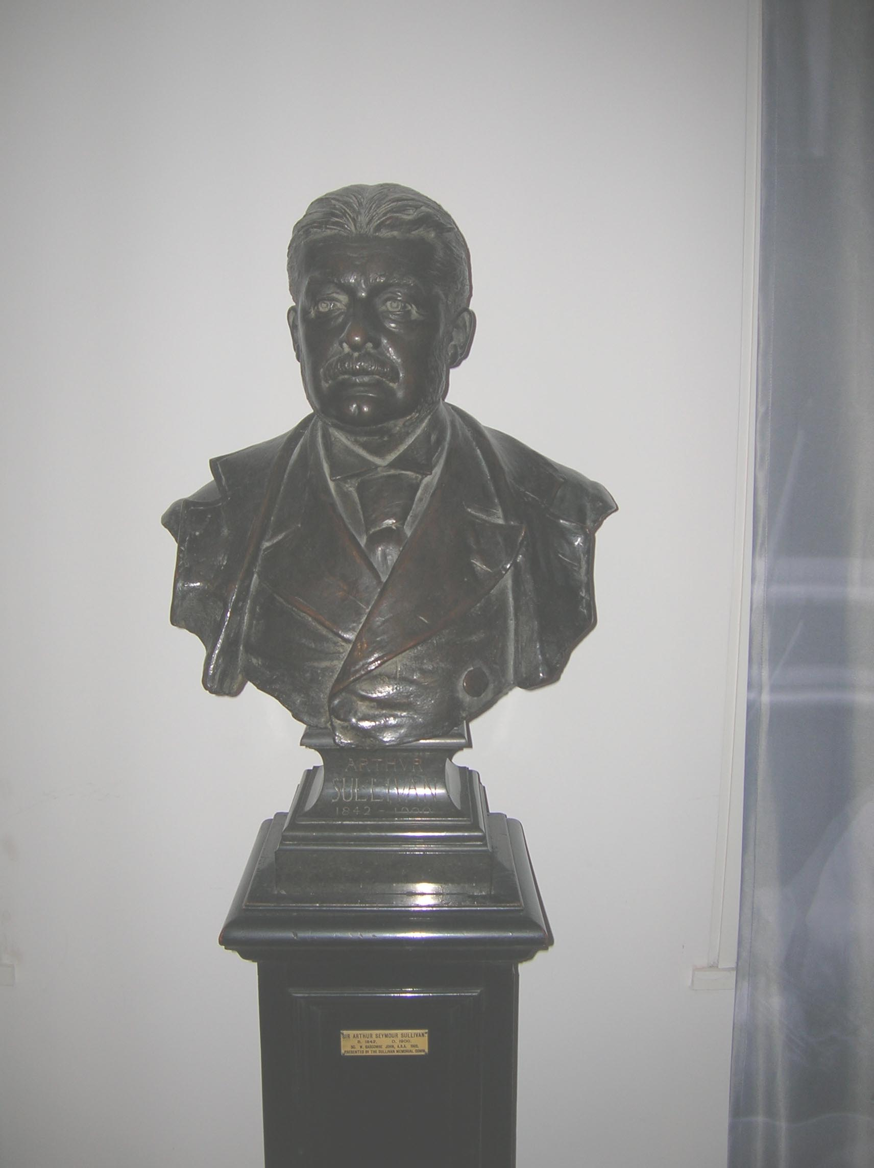 Bust of Arthur Sullivan